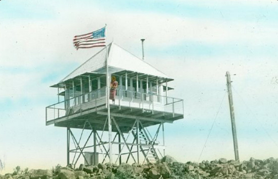 Chews Ridge Lookout, Los Padre National Forest, circa 1934